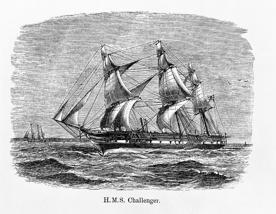 HMS Challenger, pioneer of Oceanography. From NOAA archive. Public Domain. Image source publication information Report on the scientific results of the voyage of H.M.S. Challenger during the years 1873-76 under the command of Captain George S. Nares, R.N., F.R.S. and the late Captain Frank Tourle Thomson, R.N./prepared under the superintendence of the late Sir C. Wyville Thompson, and now of John Murray; published by order of Her majesty's Government Library Call Number Q115.C4 NOAA source information